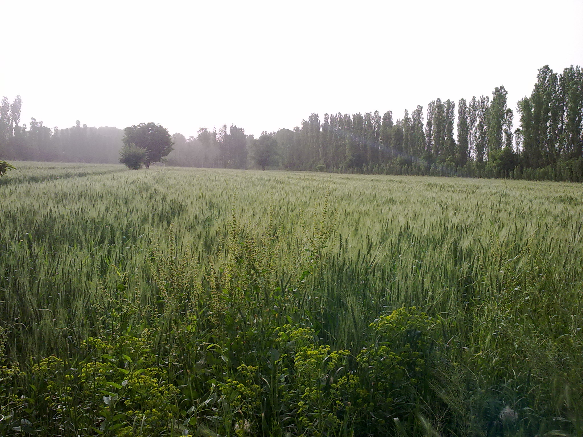 It demonstrate a scenic vision of Khorramdarreh